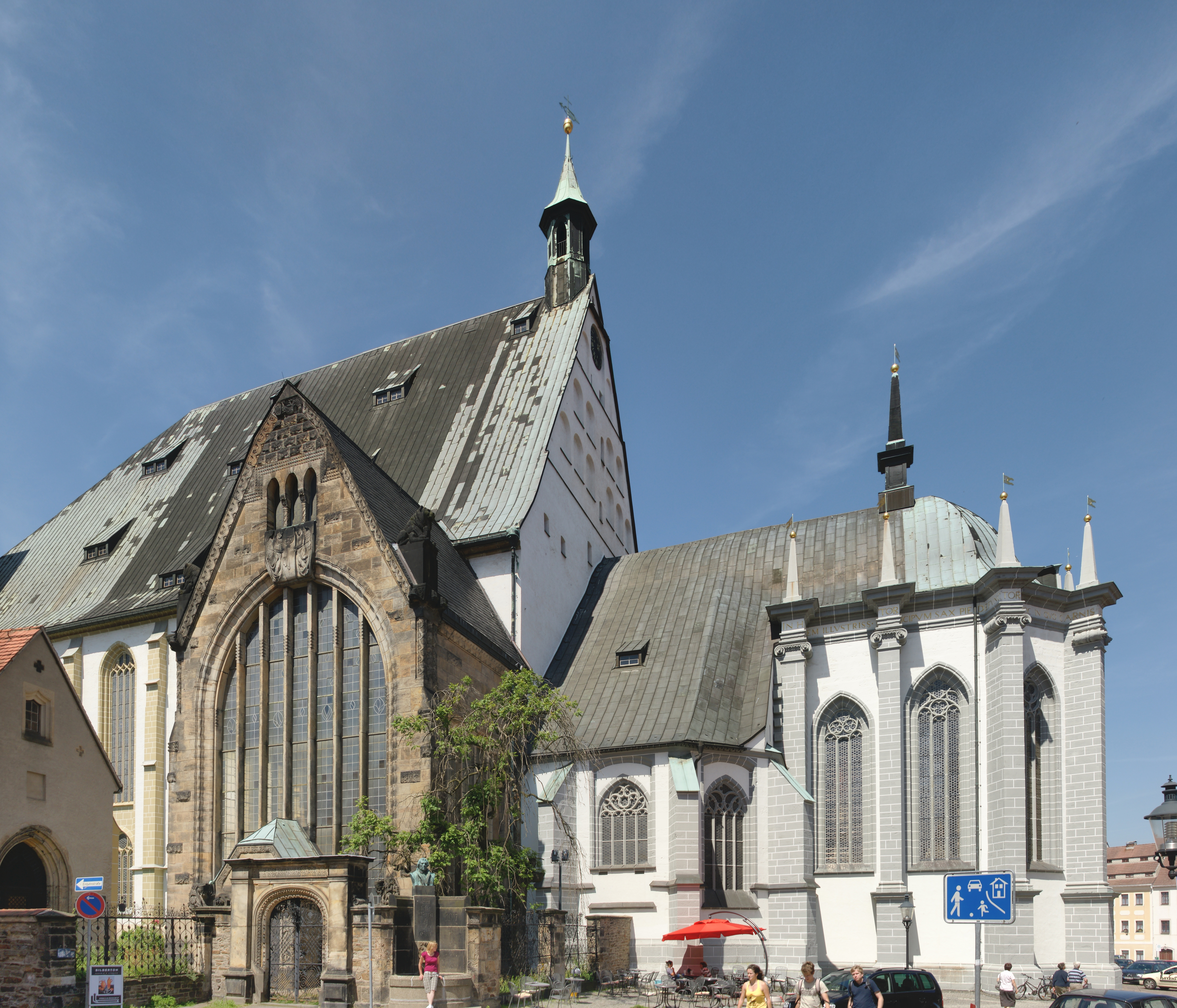 Freiberg, Cathedral St. Marien